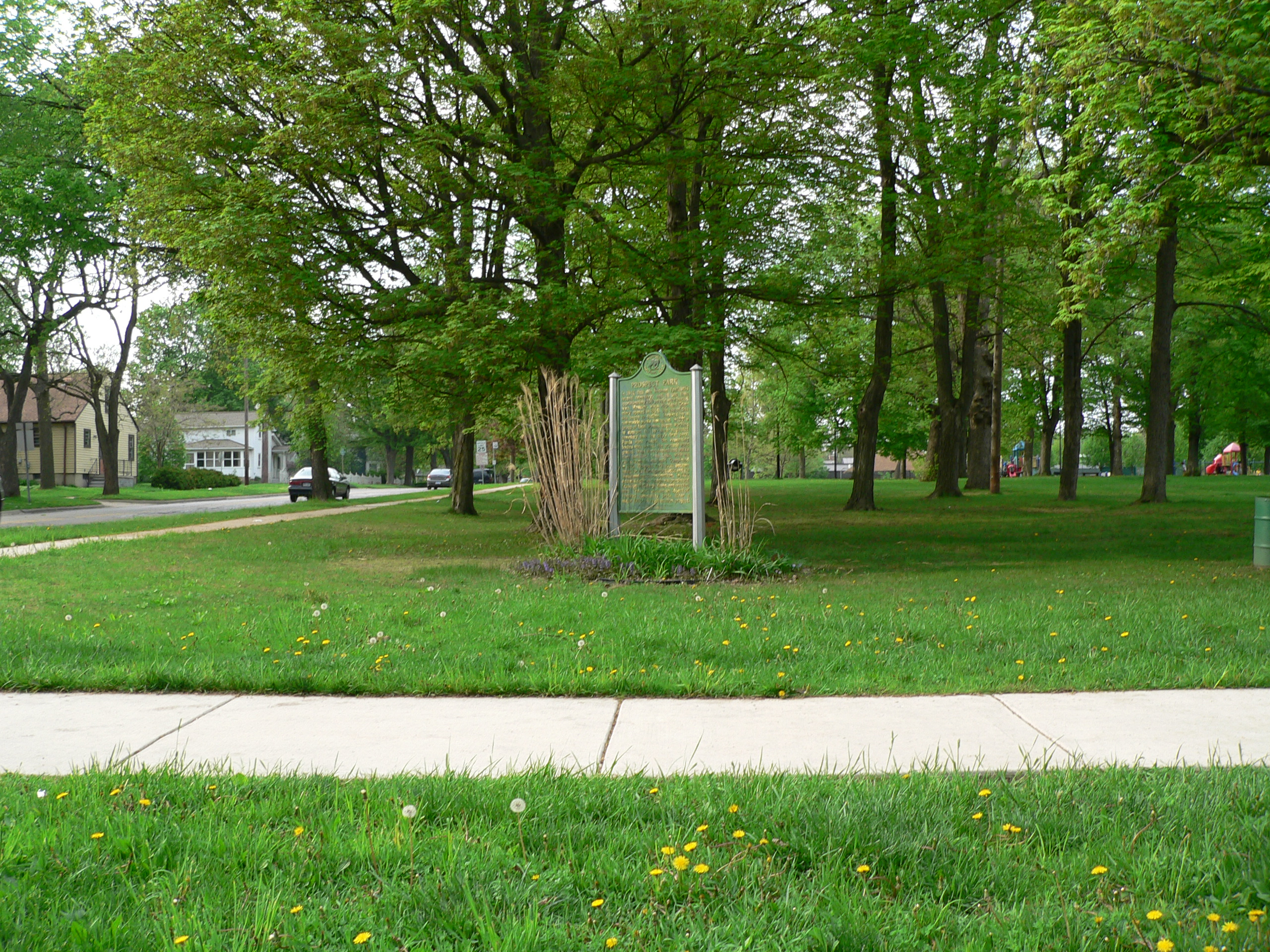 Historical marker at the southwest corner of Prospect Park in Ypsilanti, Michigan. The marker, installed October 2, 1985, reads as follows: "PROSPECT PARK In 1842 this site became Ypsilanti's second cemetery, and at one time approximately 250 people were buried here. However, when Highland Cemetery opened in 1864, the use of this site began to decline. Inspired by a nationwide parks movement, in 1891 a group of local women began working to convert the by-then-neglected cemetery into the city's first park. Funds were raised, the remaining bodies were moved, the grounds were graded, trees were planted and walks were installed. Luna Lake, with its rustic fountain, was built. Completed in 1893, Prospect Park soon became noted for its floral carpet beds and its bandstand and dance pavilion. In 1902 a coastal defense cannon was purchased from Fort McCleary, Maine, and erected here. The park became an object of renewed community pride after a major 1982-1984 rejuvenation project."